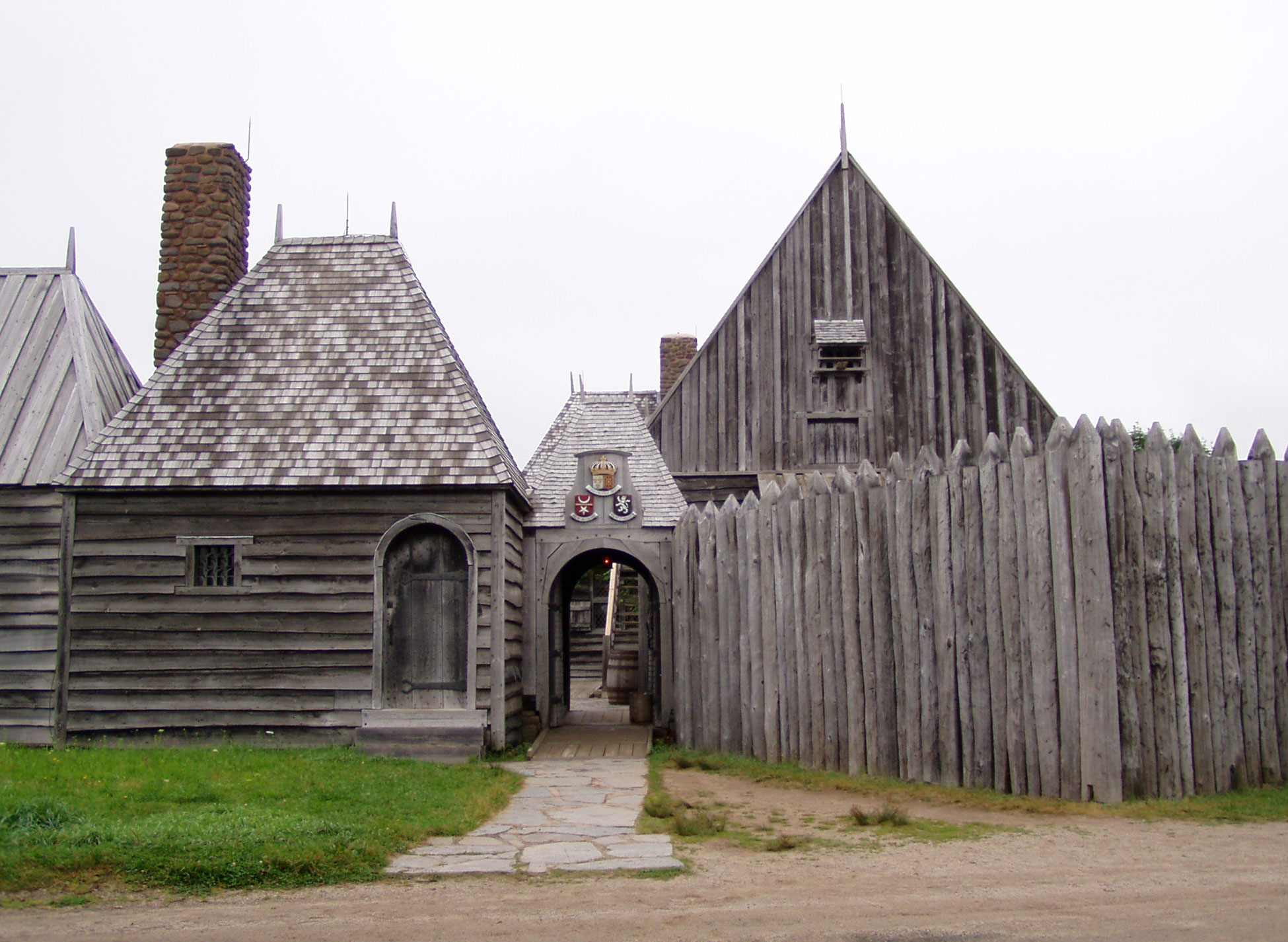 Replica of Champlain's habitation at the Port-Royal National Historic Site of Canada, Nova-Scotia